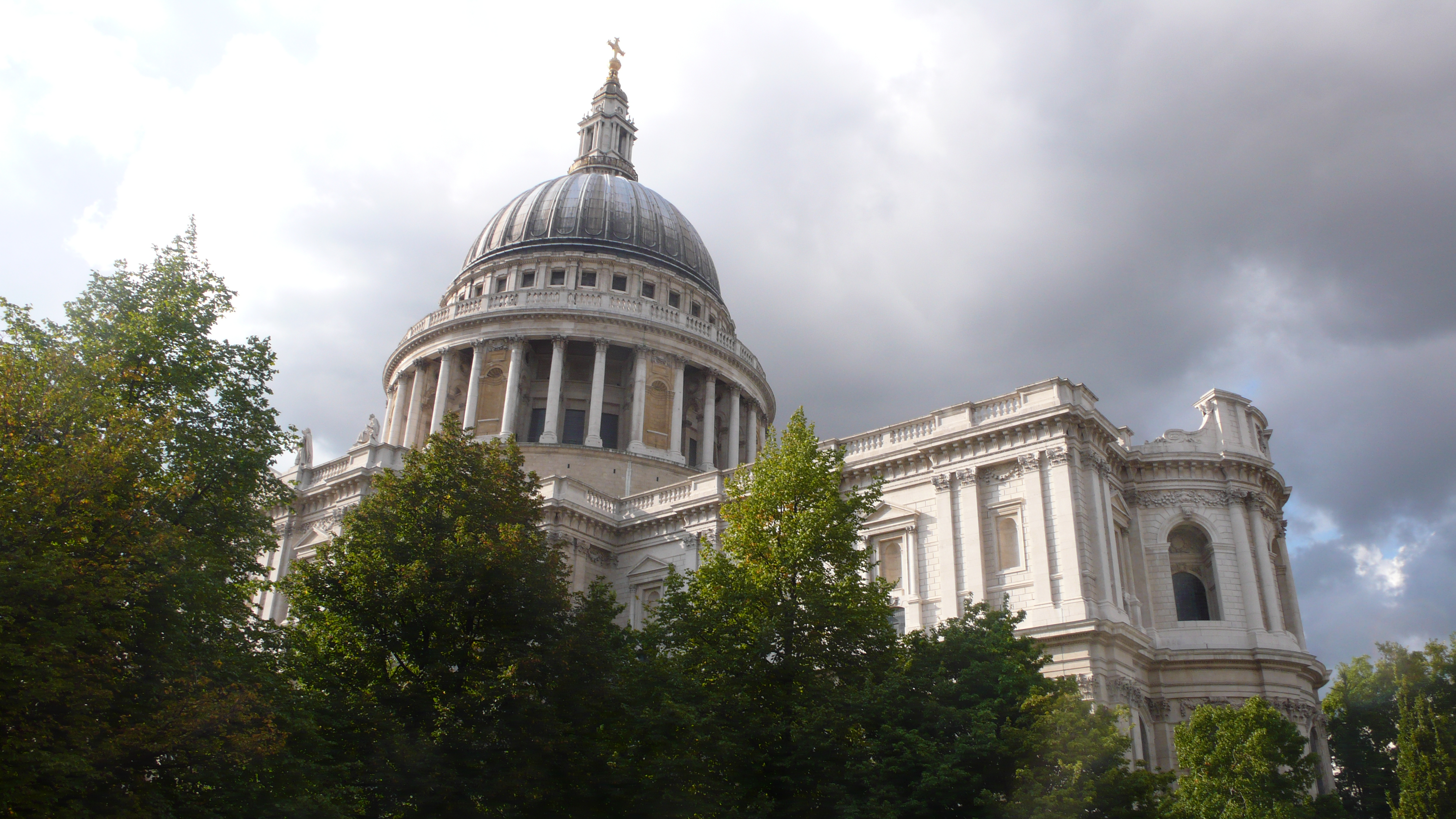 St. Pauls cathedral